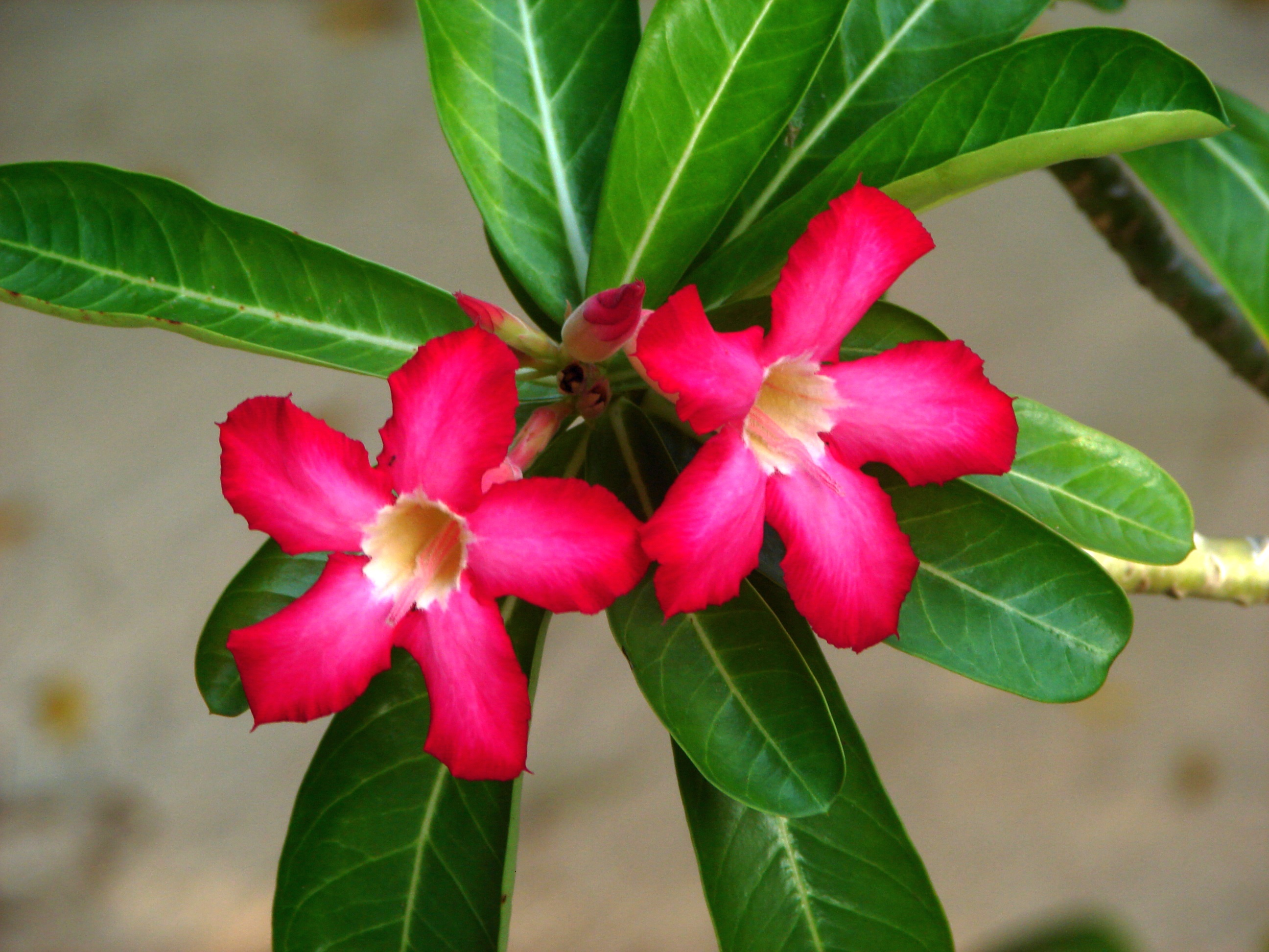 Adenium_obesum from Maldives